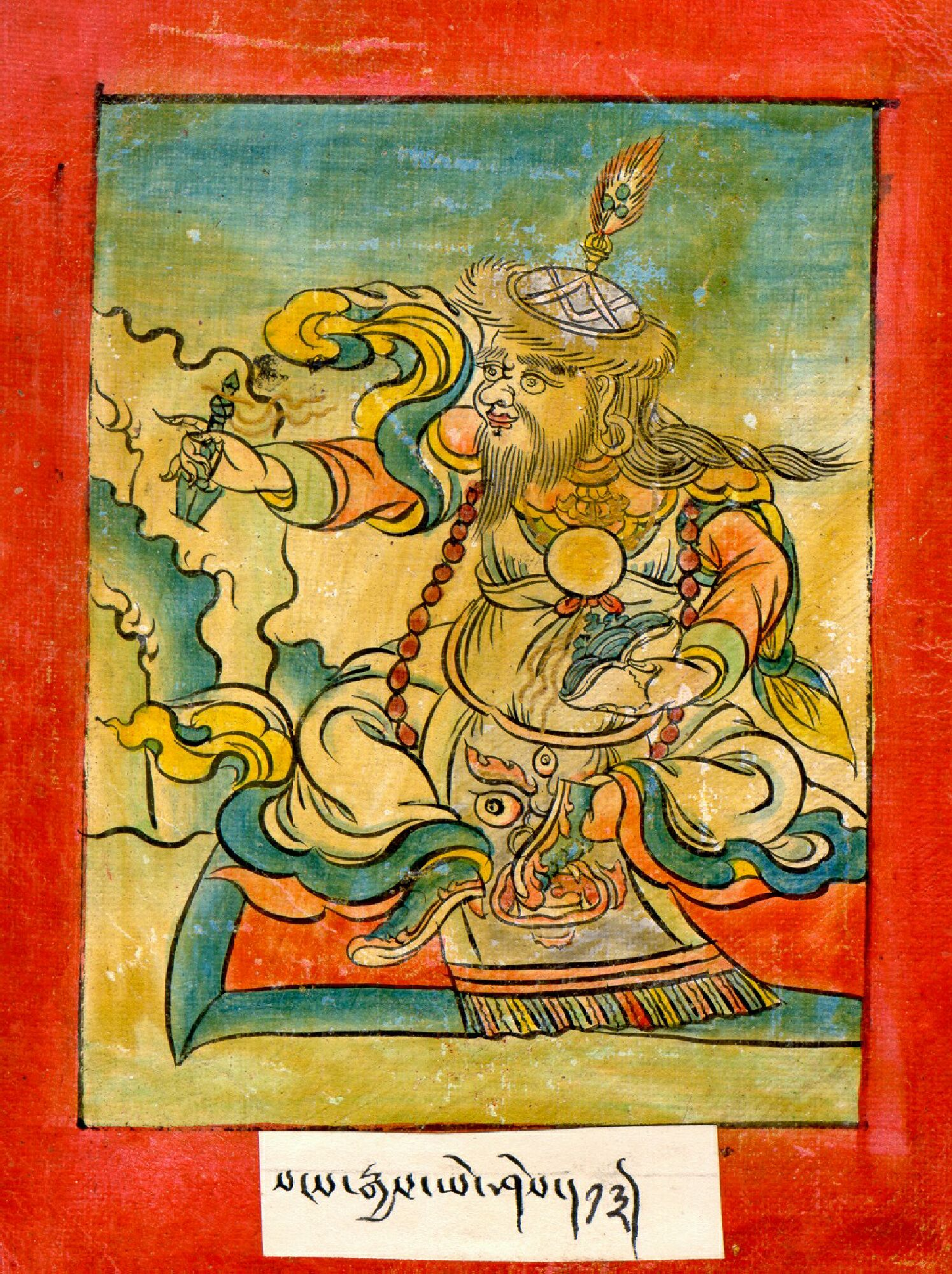 Nubchen Sanggye Yeshe (b.832 - d.962) - Disciple of Padmasambhaba